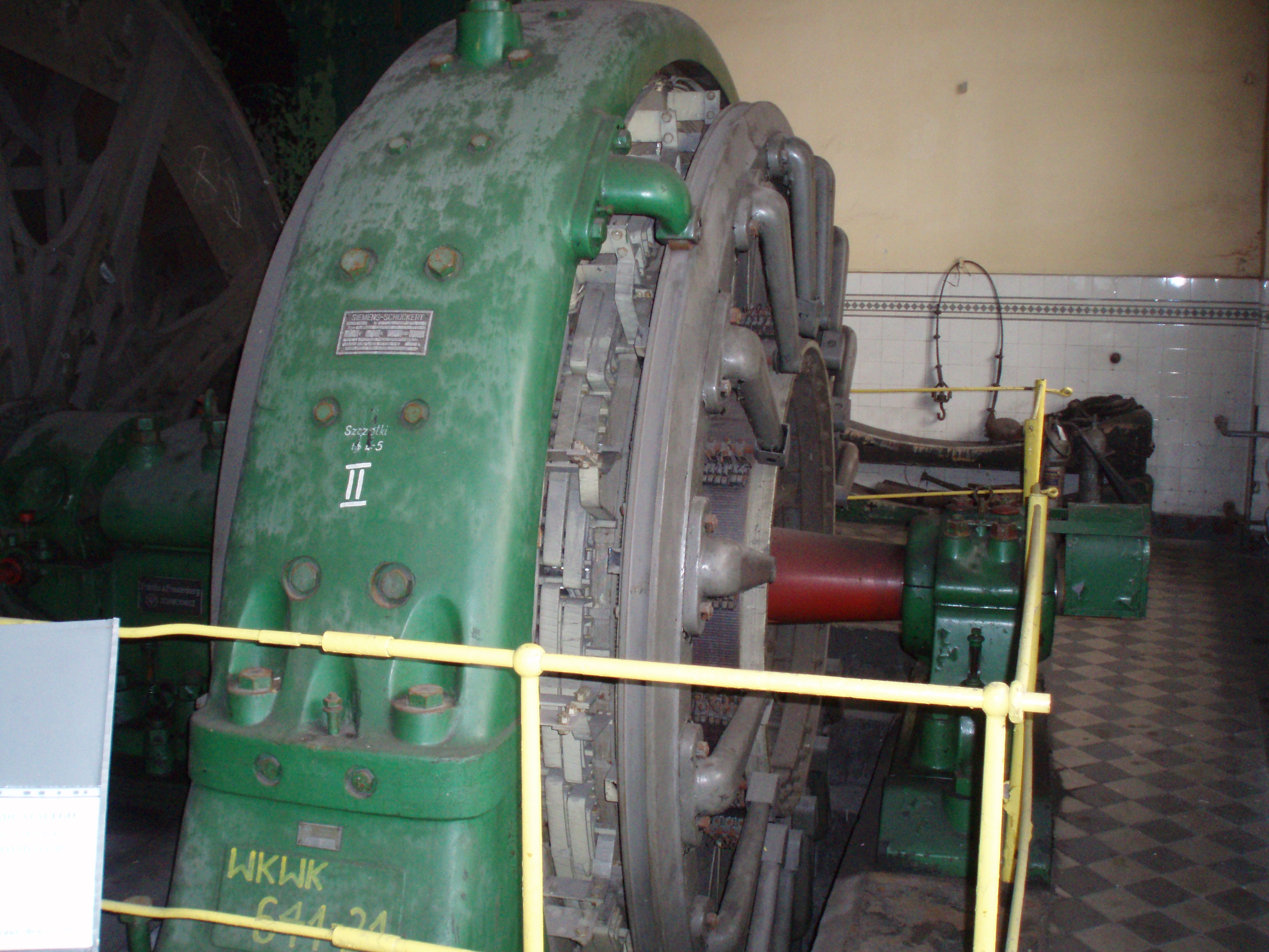 Electric winding engine from closed coal mine Thorez, Wałbrzych, Poland.